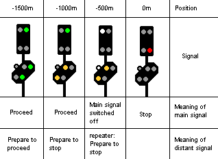 German Railway Signalling Example1